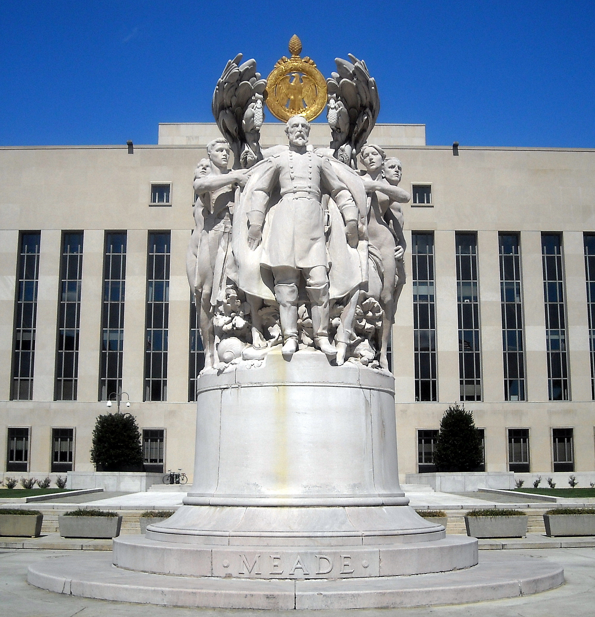 The George Meade Memorial located in front of the E. Barrett Prettyman Federal Courthouse in Washington, D.C.